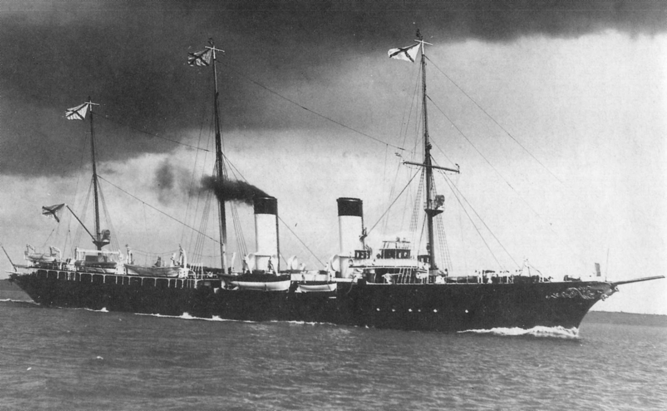 Imperial Russian cruiser Almaz.